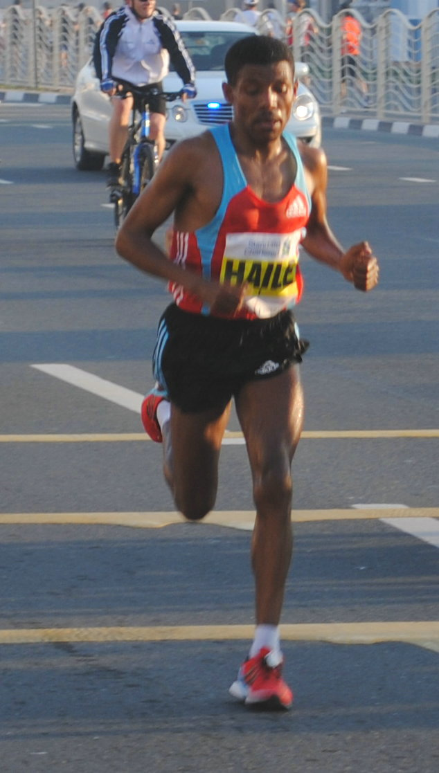 Haile Gebreselassie about 2/3 of the way through the Dubai Marathon 2010. He ended up winning in a time of 2:06:09